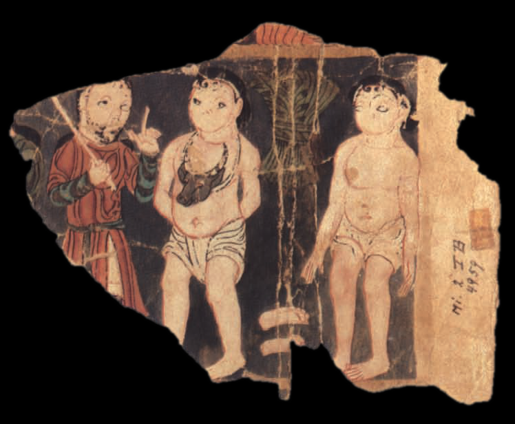 Fragment of Uyghur Manichaean service book illuminated with Two Plaintiffs from Judgment and Rebirth of Laity, leaf from a Manichaean book, Khocho, Temple α., ca. 8th-9th. Manuscript painting, 8.2 x 11.0 cm. MIK III 4959.